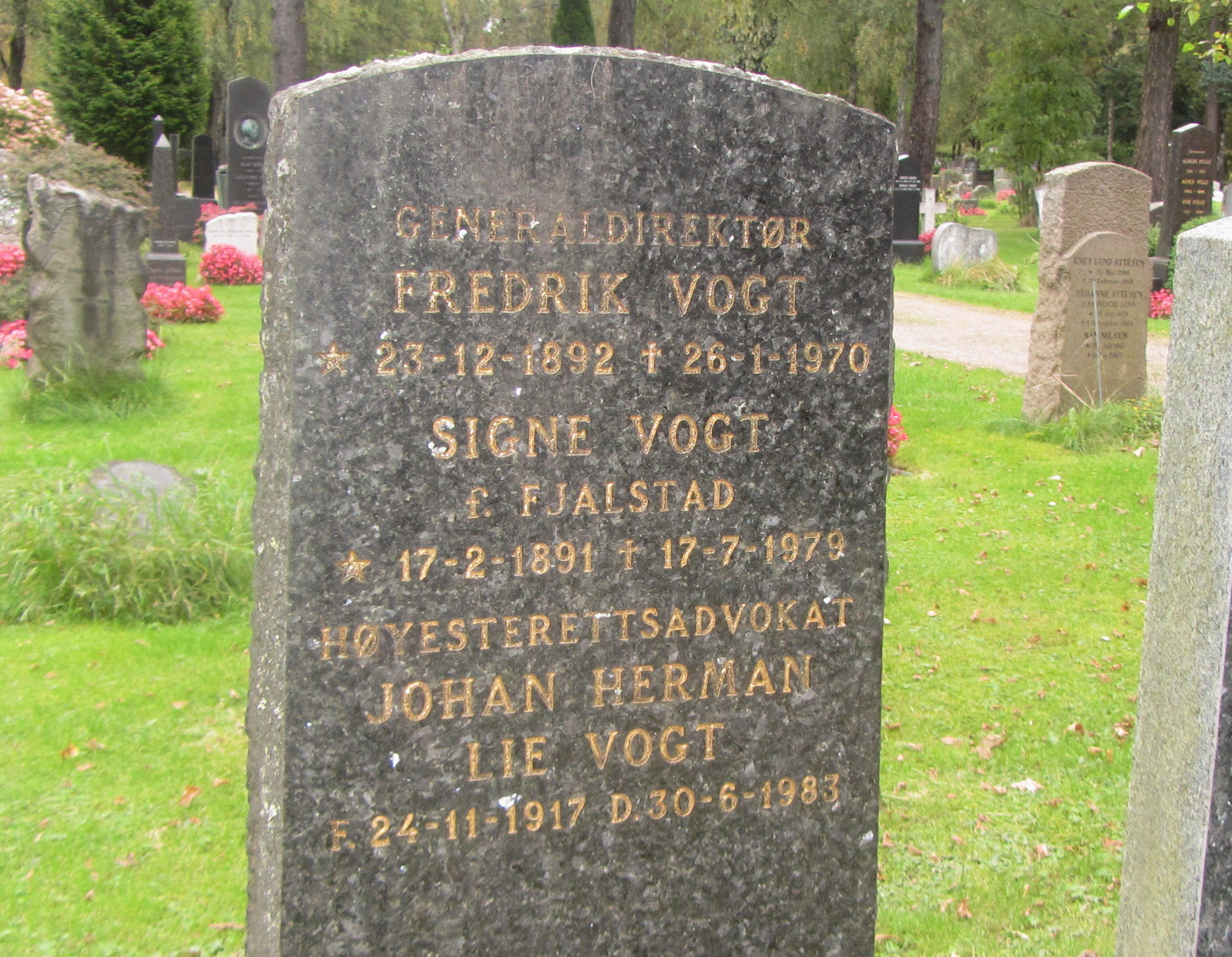 Fredrik Vogt was Director General of Norwegian Water Resources and Energy Directorate (NVE), before professor at Norwegian Institute of Technology (NTH) and also Rector at the same institution.